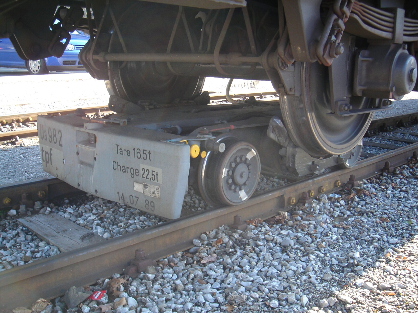 Standard gauge wagon on transporter trucks in Broc-Fabrique, Cailler chocolate factory